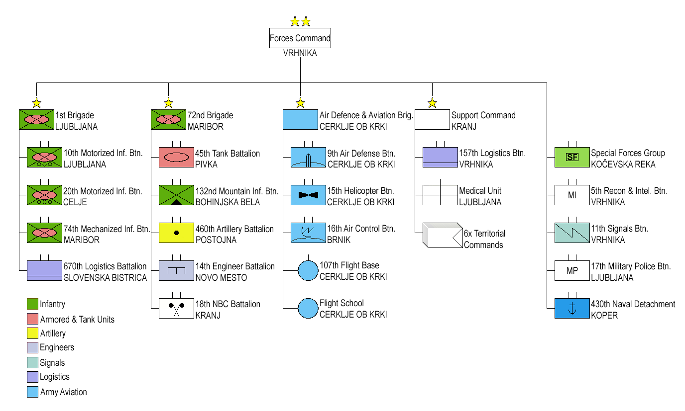 Structure of the Slovenian Armed Forces